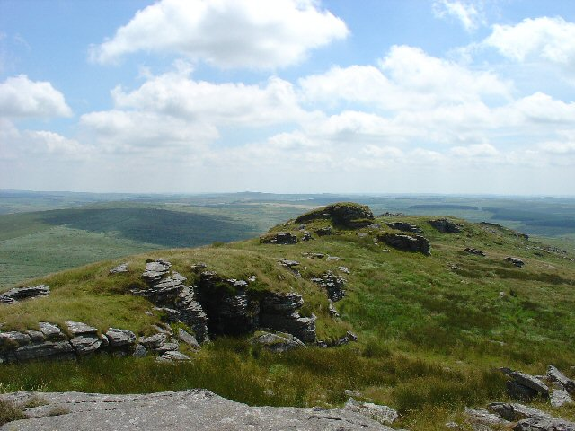 Brown Willy Summit Ridge, Bodmin Moor, Cornwall. Brown Willy has a ridge on its summit starting at SX158800 and running S to SX159796. The highest point is at a cairn on the N end (with associated triangulation pillar). This view is taken from near the summit cairn looking S.